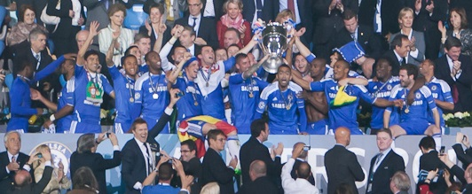 RA1 6615 - cropped